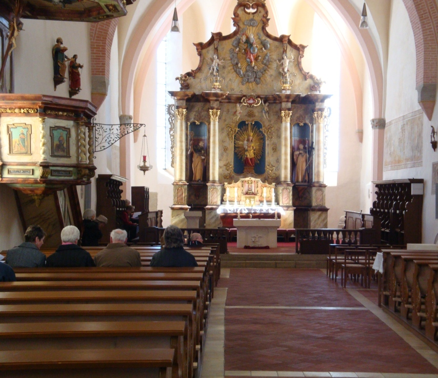 inside the church in Adlersberg near pettendorf